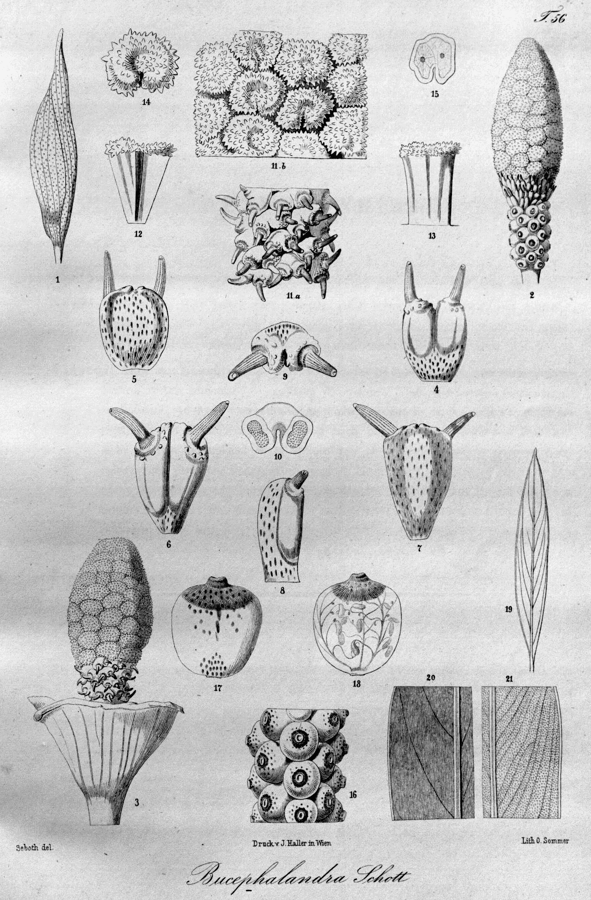 Bucephalandra genus botanical drawing